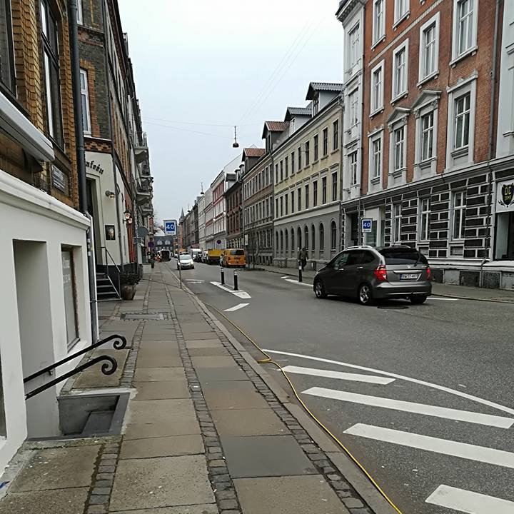 Danmarksgade, street in aalborg danmark